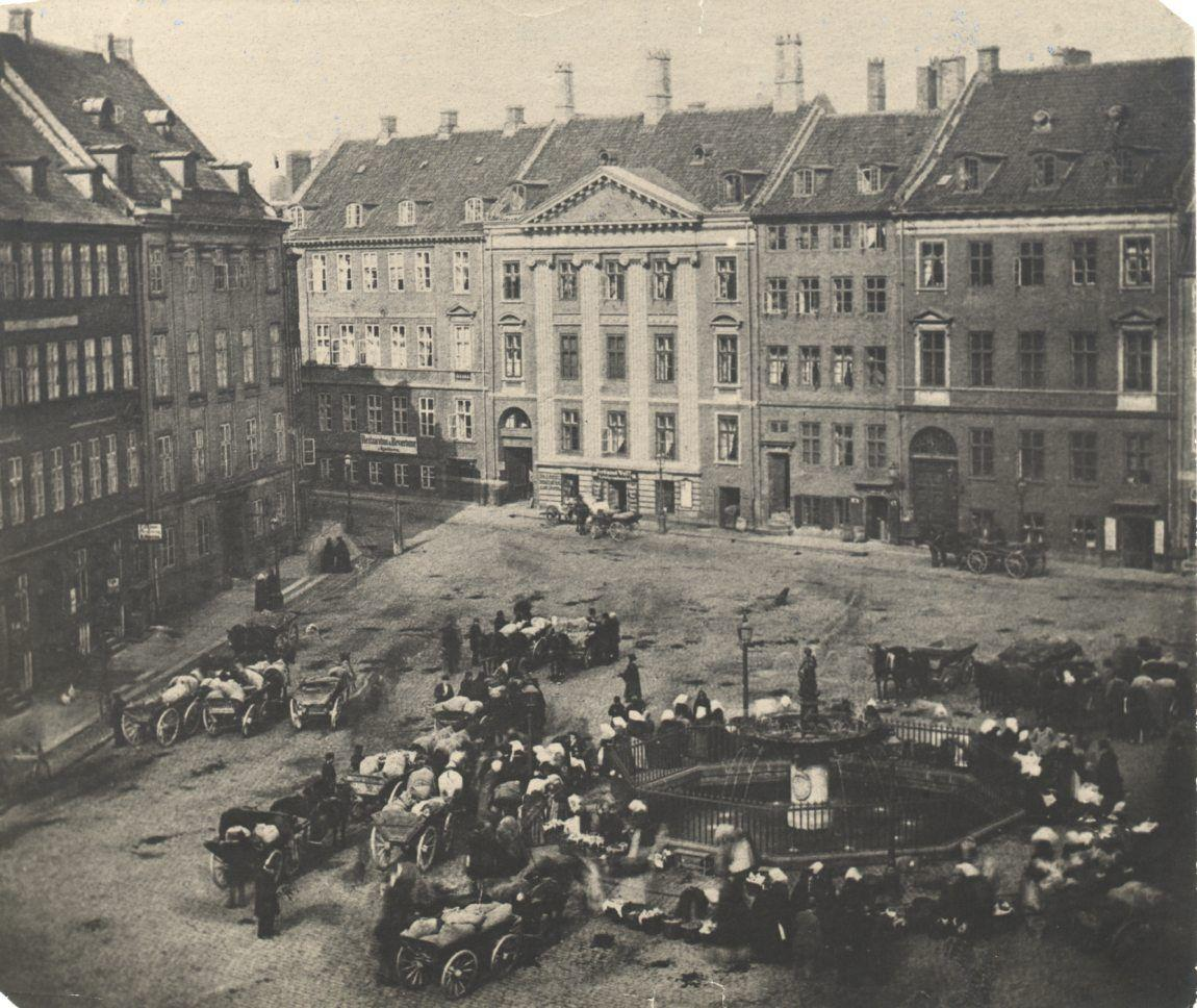 Gammeltorv in Copenhagen, Denmark